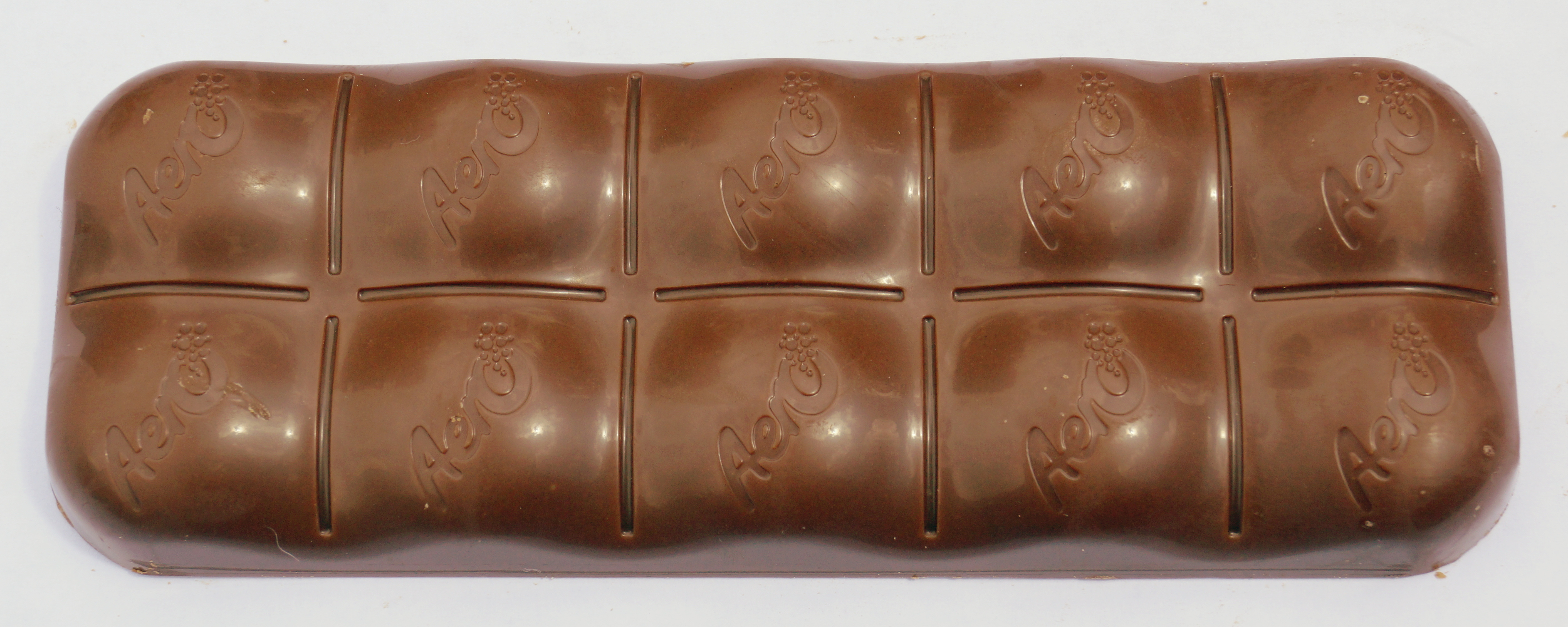 Aero Bubbles Chocolate Bar (Canadian Version) as of June 2013